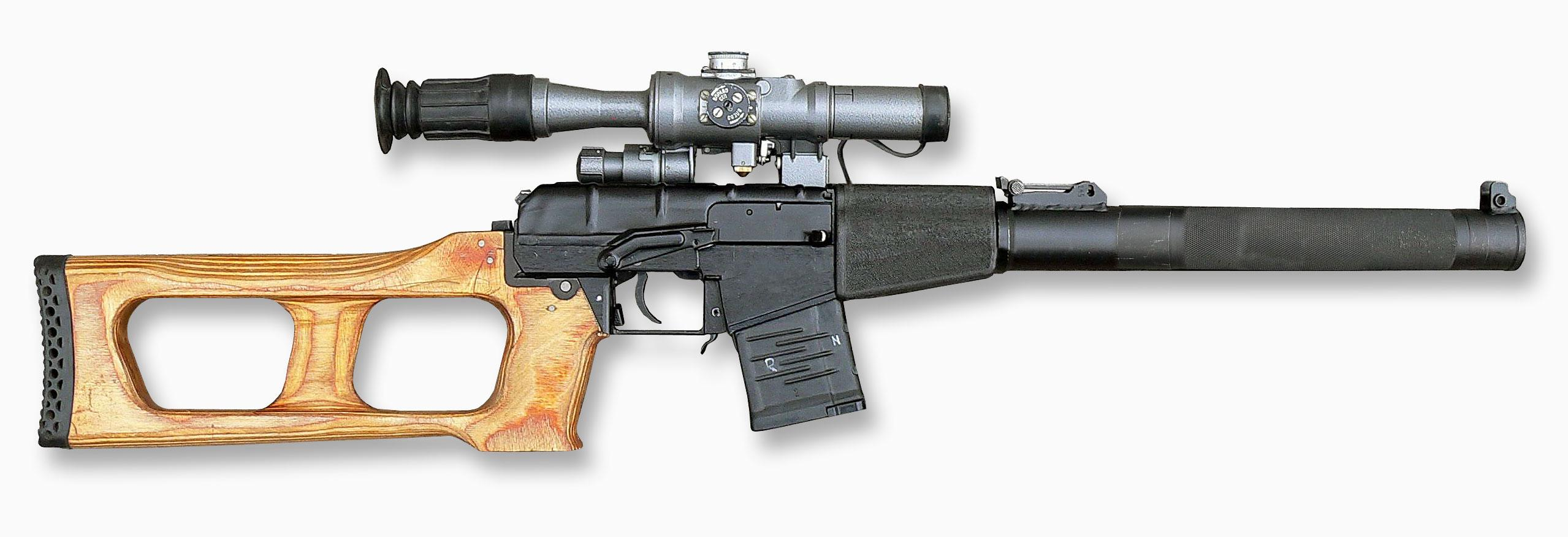 Vss vintorez from russia